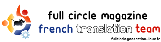 The Full Circle French Translation Team logo.